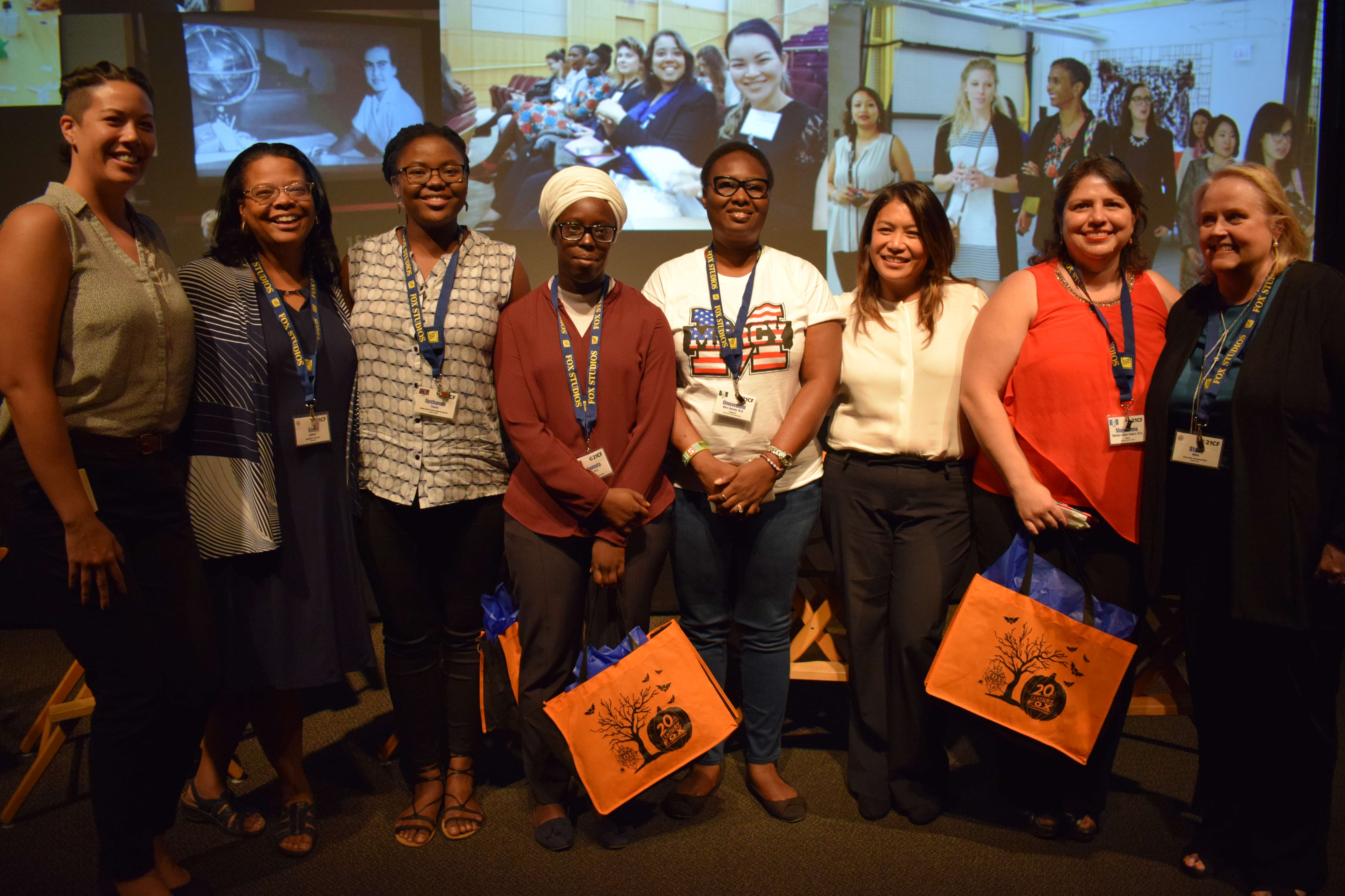 Fatoumata Kébé at 21st CEntury Fox during a panel discussion for the 2017 Hidden No More International Visitor Leadership Program